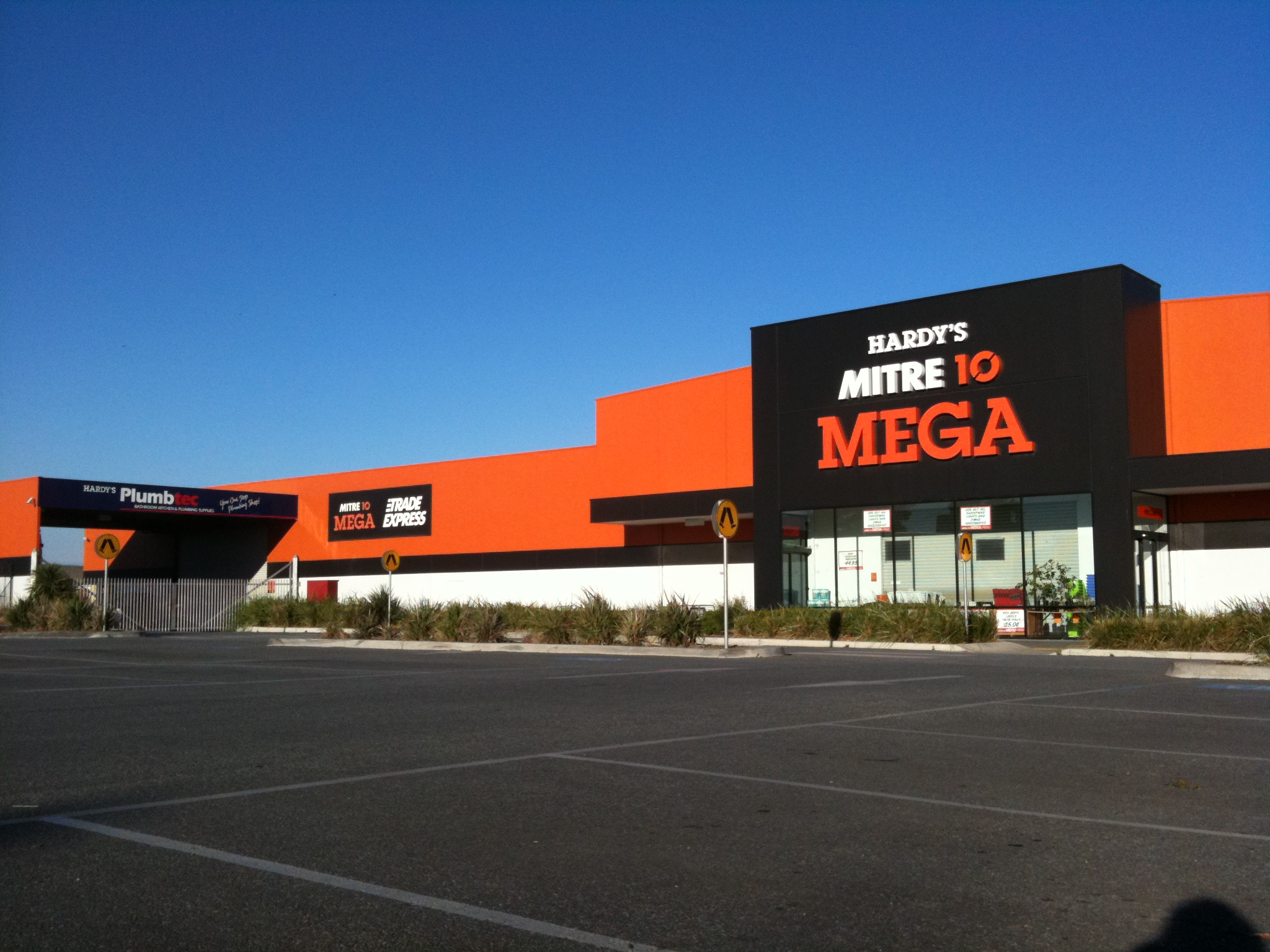 A photo of Mitre10 MEGA Pakenham store front